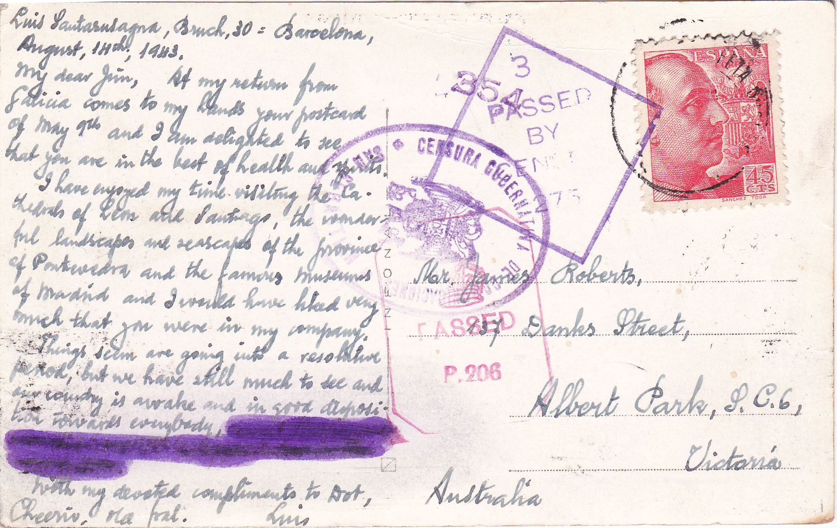 A postcard from Spain in 1943 with San Sebastian, United Kingdom and Australian censor markings; some text obliterated by indelible pencil